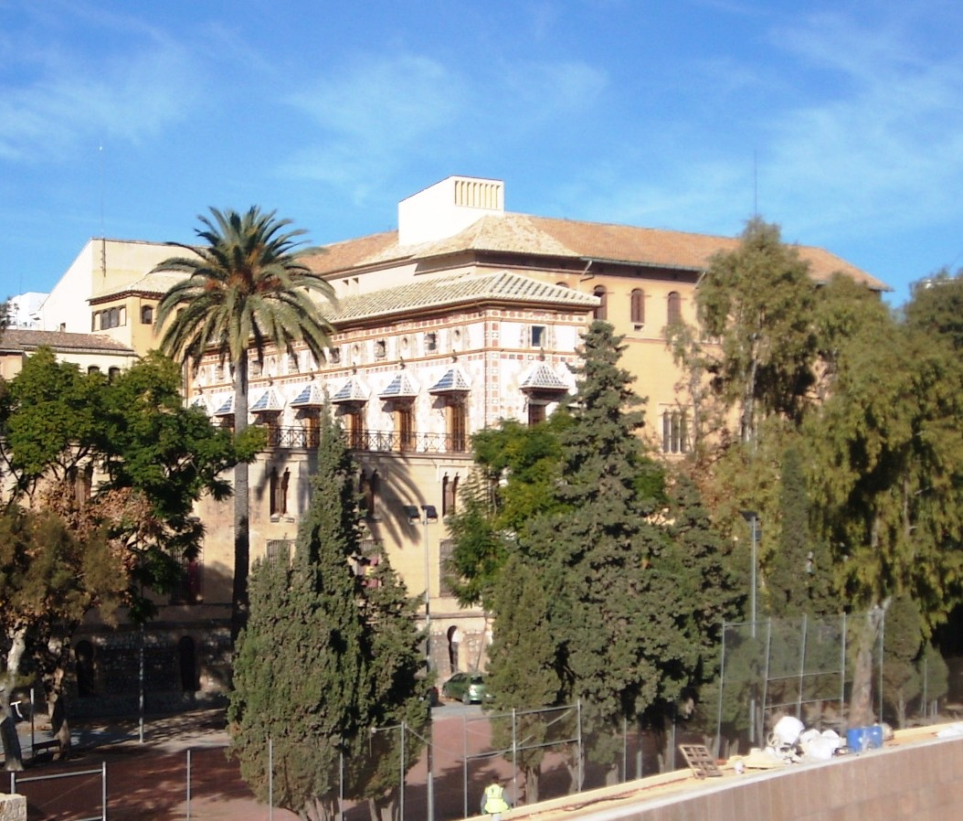 The royal palace was built by the dukes of the Crown of Aragon, Alfons el Vell being the initiator, which had remained the principal residence and where a court which surrounded himself with poets such as Pere March or Ausiàs March. In 1485 Roderic Borja (later Alexander VI, buying Ferdinand Duke of Gandia and with it the palace, where you will install the ducal Borgia dynasty, especially the fourth duke, Sant Francesc de Borja. continued in Borgia hands up in 1740 in what happens at the hands of the House of Osuna. The Society of Jesus Buy (1889) almost in ruins, and from the restaurant and then take care of maintenance, centering around the palace in Figure III of its General of the Society of Jesus Sant Francesc de Borja.